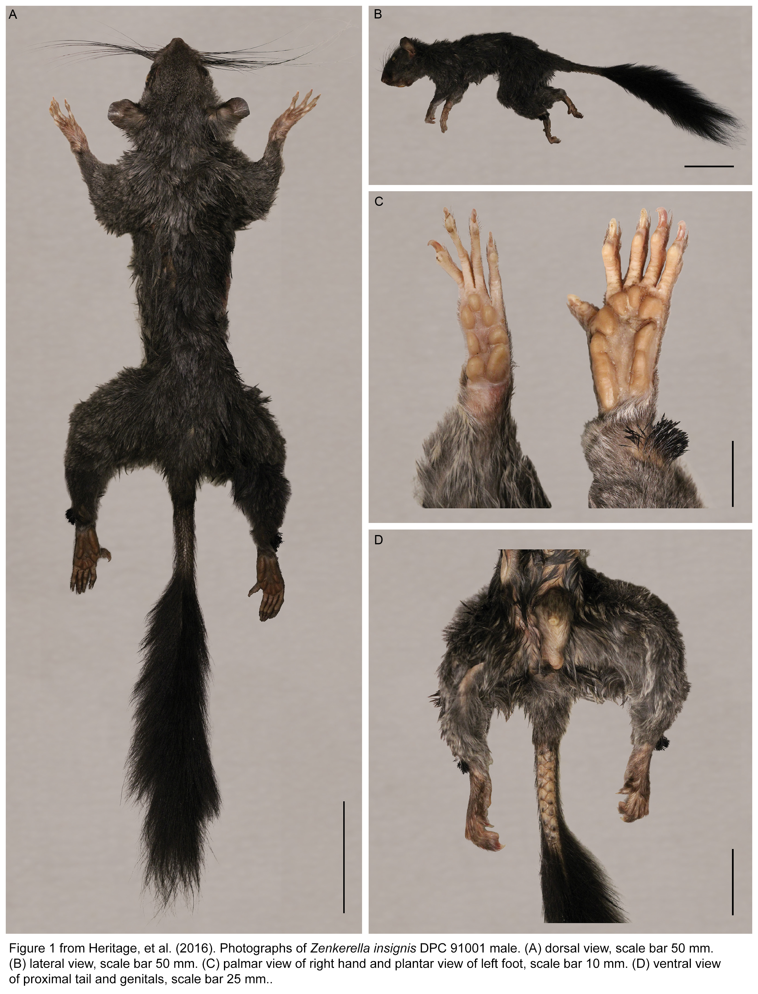 Evolutionary Studies, Genetics , Paleontology, Taxonomy, Zoology